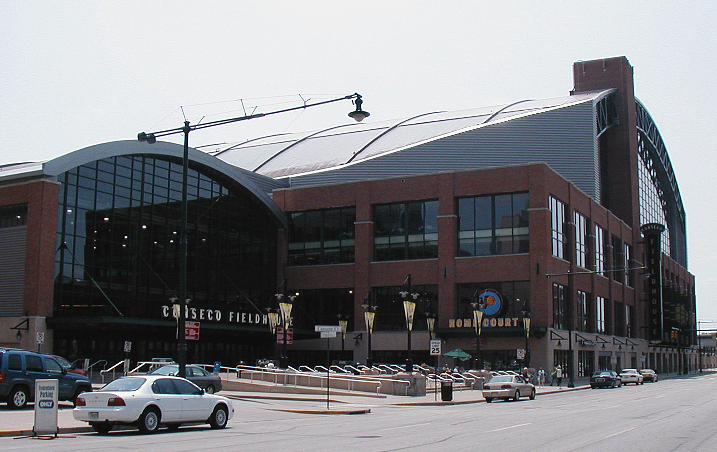 Conseco Fieldhouse in downtown Indianapolis. Photo taken 8 July 2006.